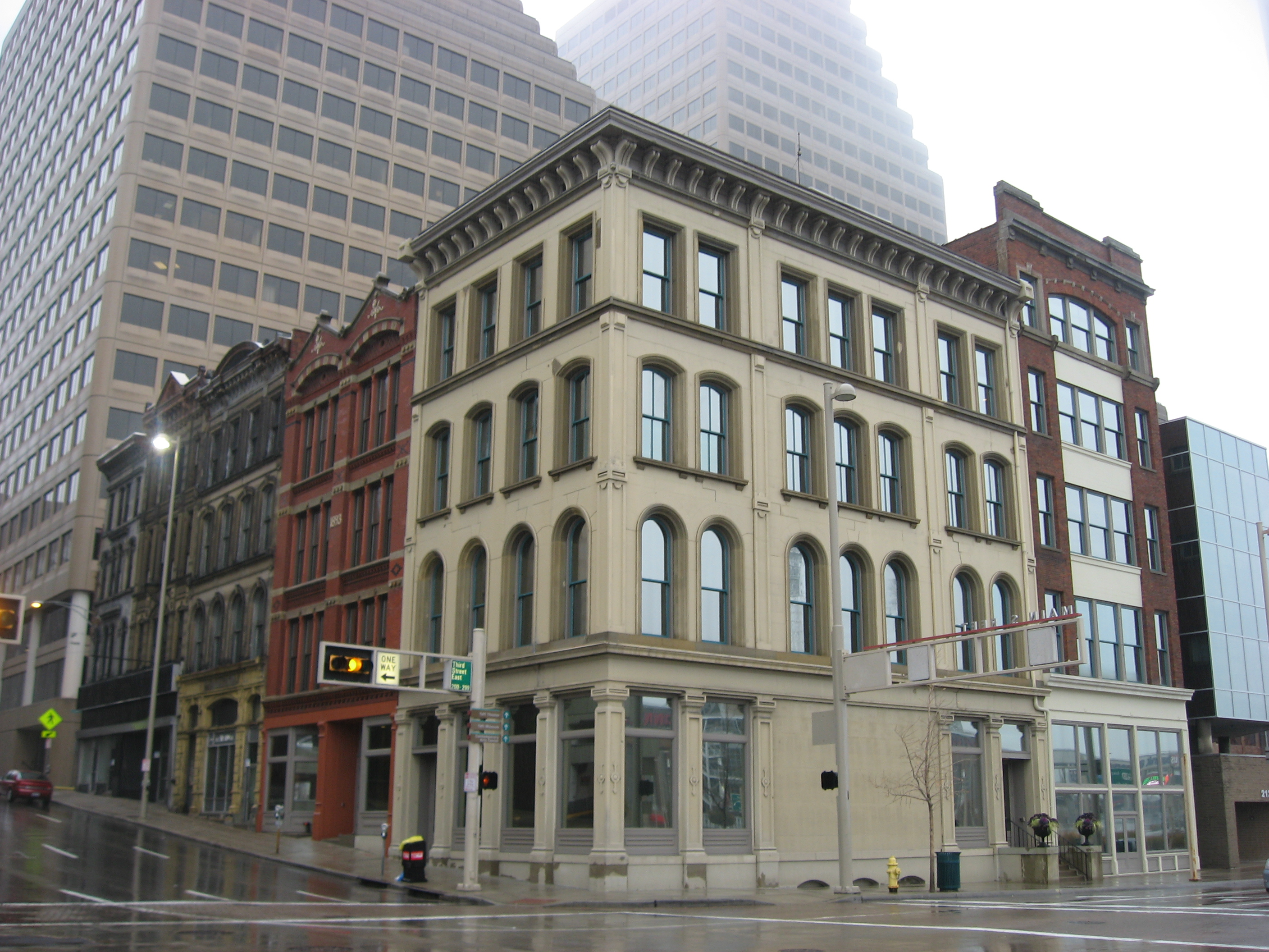 Buildings on the northeastern corner of Main and Third Streets in downtown Cincinnati, Ohio, United States. Three of these buildings, located at 300-302 and 304-306 Main and 208-210 Third, compose the Main and Third Street Cluster; under this name, they are listed on the National Register of Historic Places.